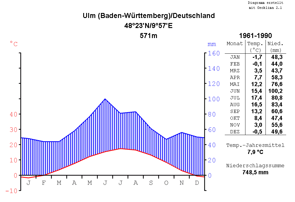 climate chart of Ulm, Baden-Württemberg, Germany, for the period of time from 1961 to 1990, in the format by Walter and Lieth, metric, °Celsius and millimeters, chart made with Geoklima 2.1, label in German